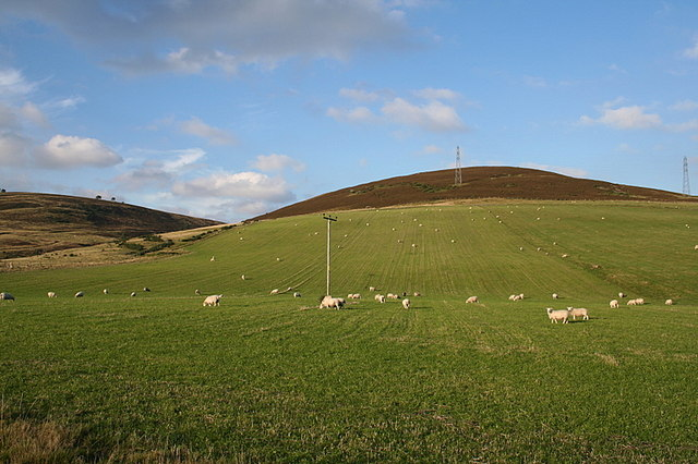 Carn Iain (528m) lies north of Corgarff, Aberdeenshire, at the south end of the Lecht Pass